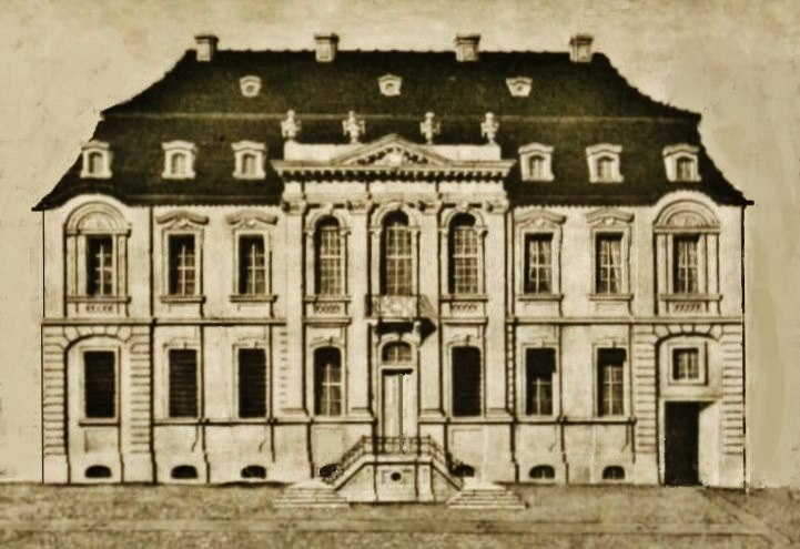 Schickler House (Dönhoffplatz), Berlin